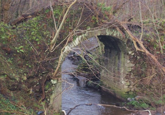 18th Century Bridge at Castlecary C-listed bridge which crosses the Red Burn beneath Castlecary Viaduct. Recently saved from the bulldozers, it was going to be demolished as part of the A80 upgrading. The bridge is on the line of an old toll road.